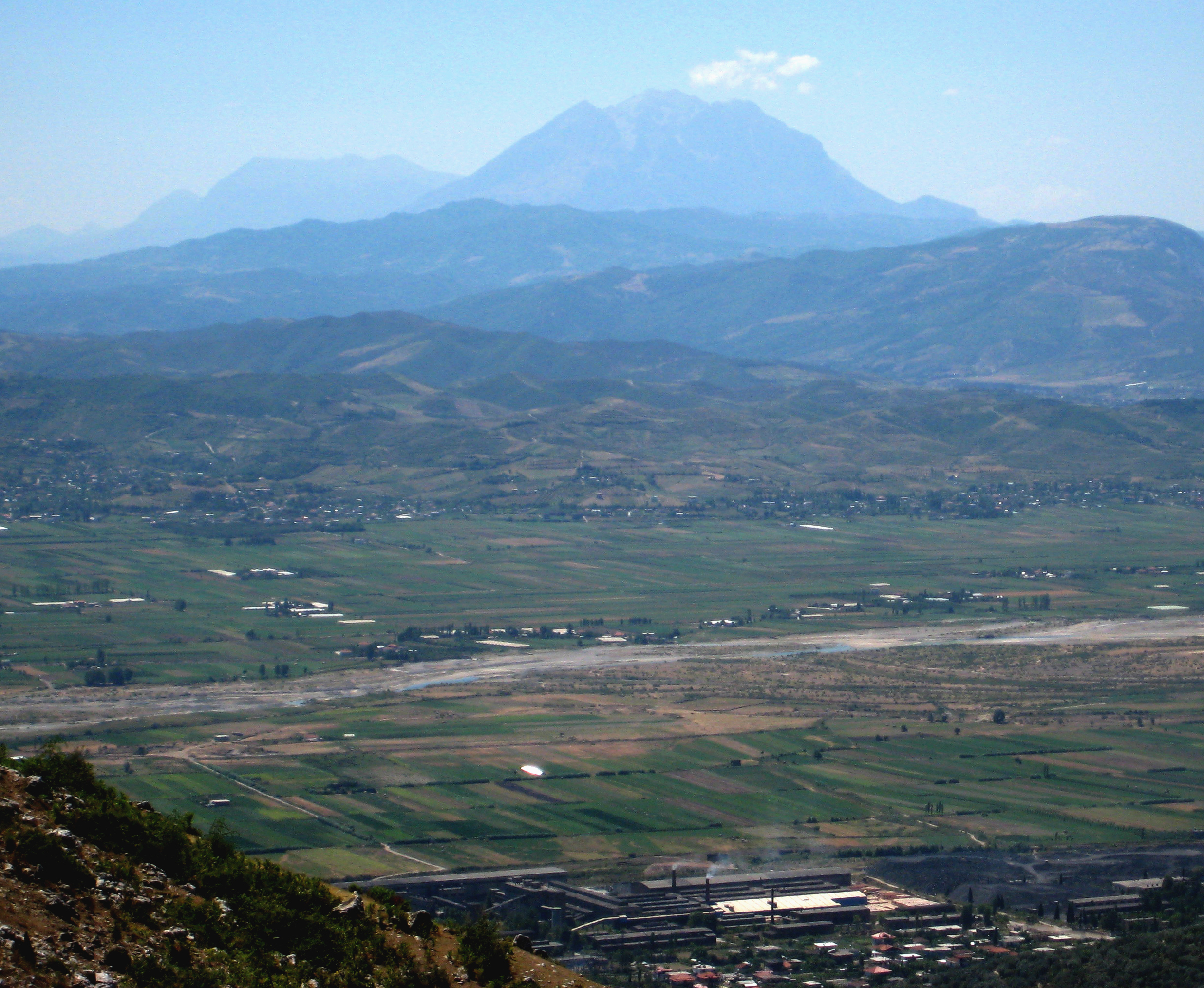 Mount Tomorr in Central Albania as seen from the North. In front the plain around Elbasan with parts of the huge Steel of the Party metallurgical complex and the river Shkumbin